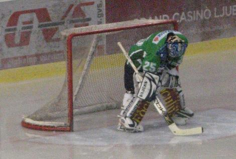 Pic of Norm Maracle.